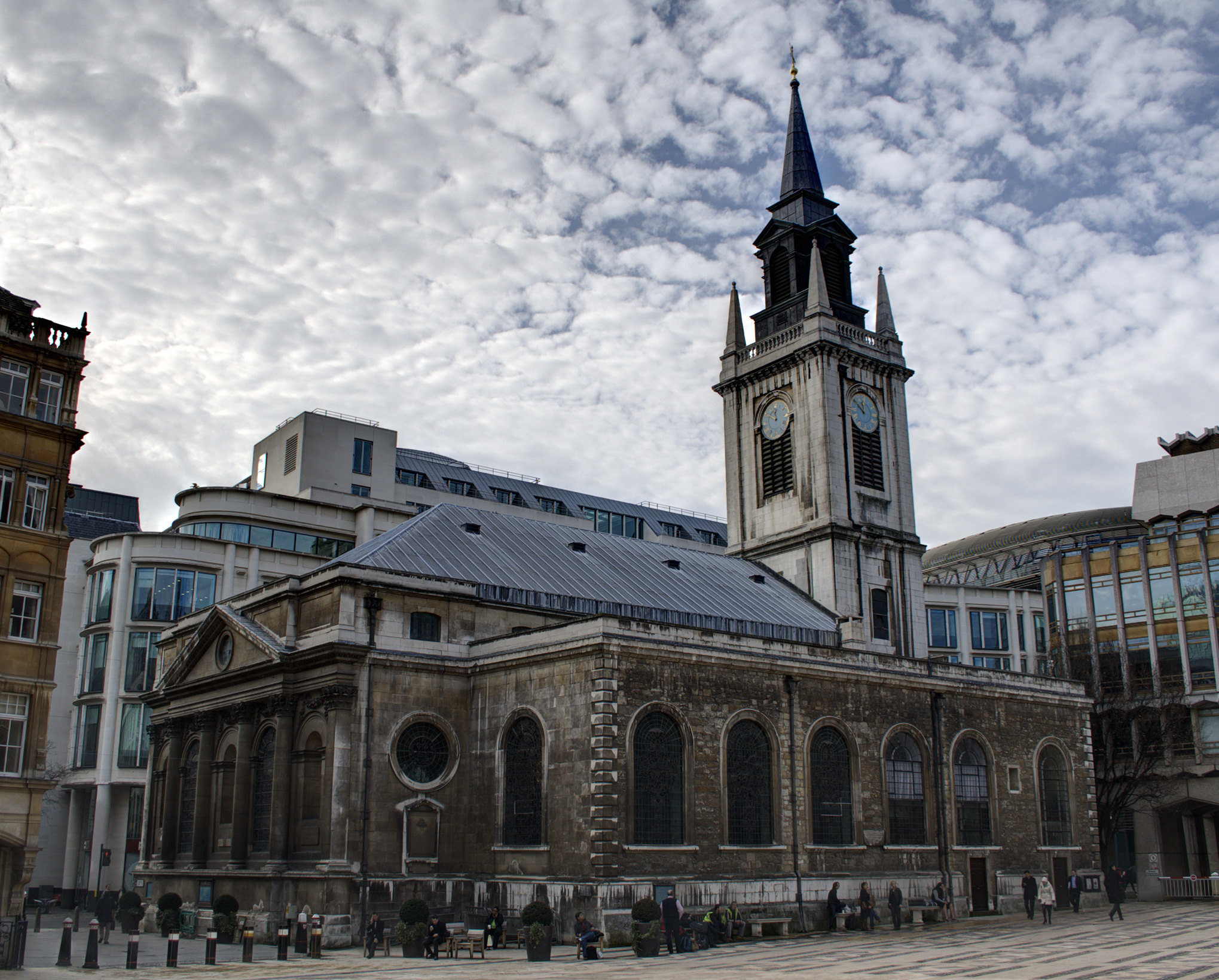 St Lawrence Jewry, City of London